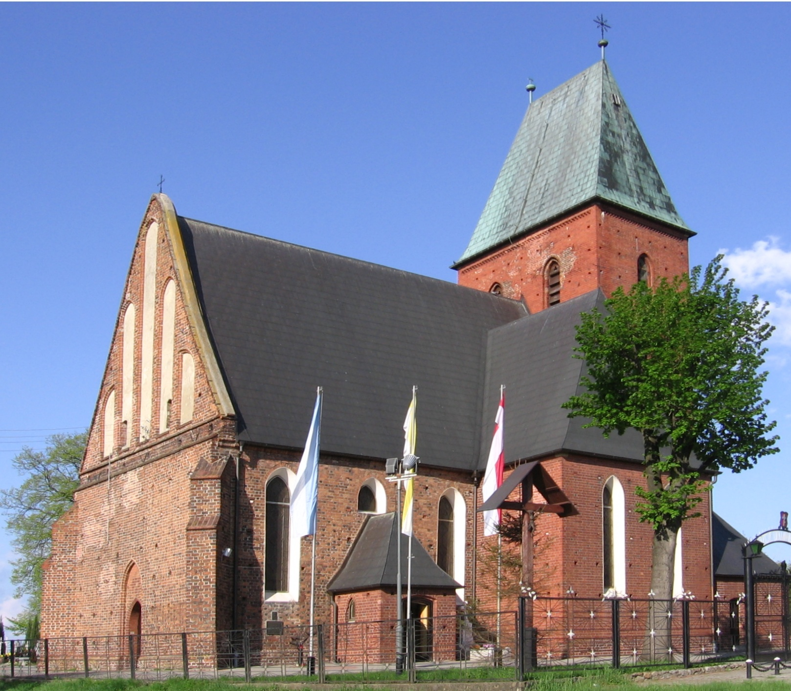 village Kryniczno near Wrocław - the church of Saint Stanislaus the Martyr and Bishop